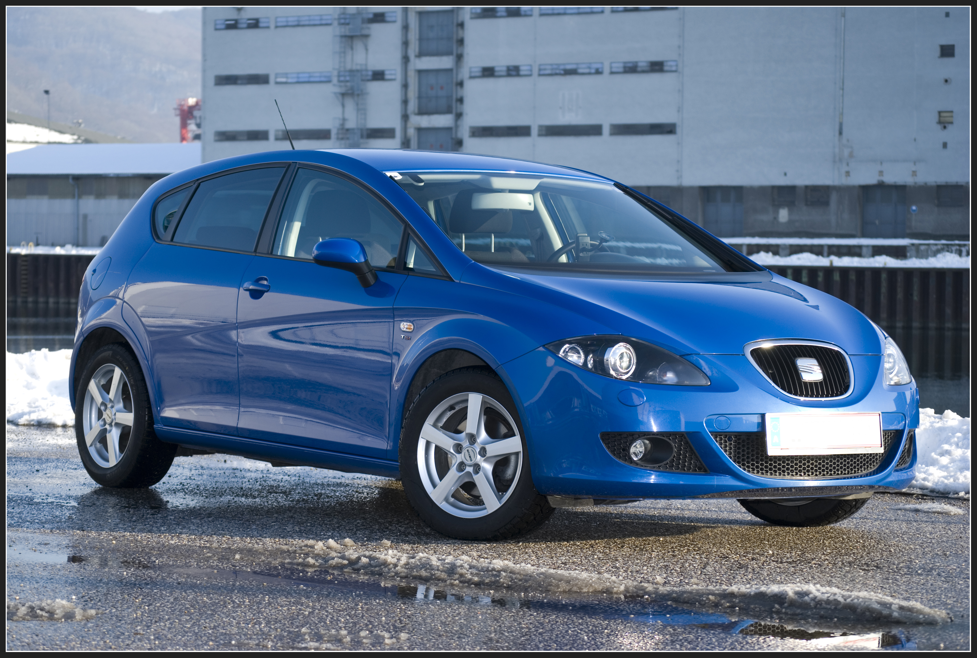 Seat Leon II 1P general view